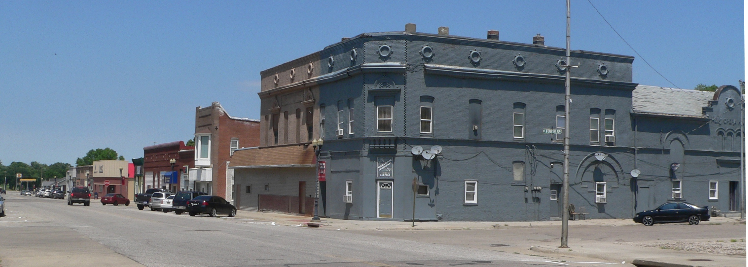 Downtown Madison, Nebraska: east side of Main Street. Camera is facing northeast from about 4th and Main.